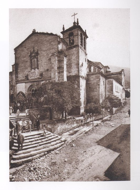 San Francisco Church in Viveiro